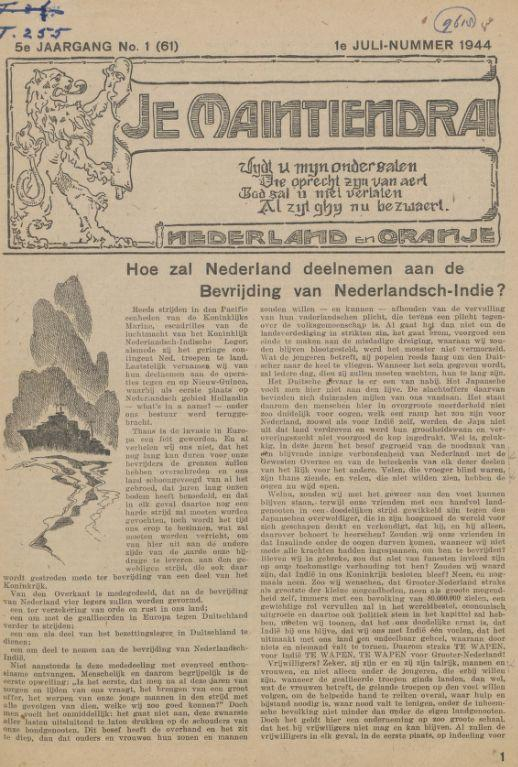 Front page of Dutch resistance newspaper Je Maintiendrai of July 3, 1944